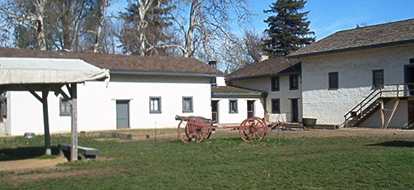 I, Moncrief, took this photo of Sutter's Fort in Sacramento in 2002